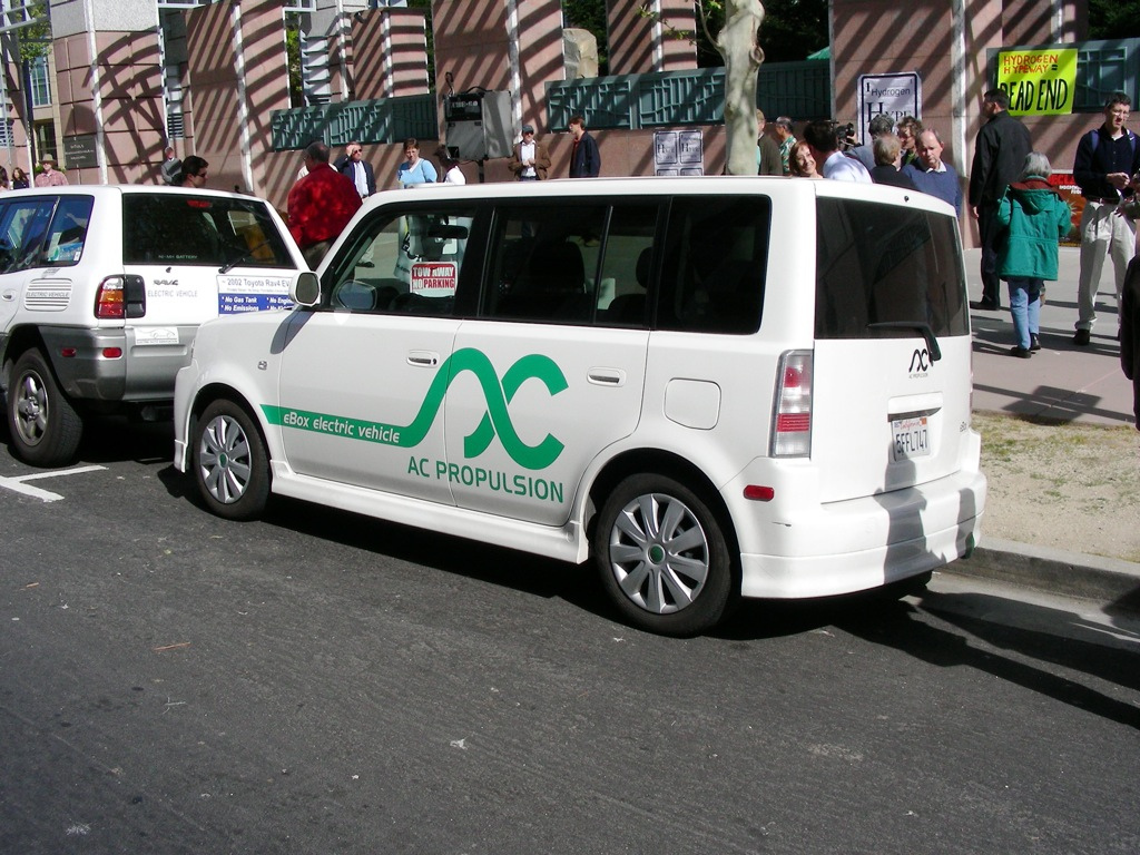 AC Propulsion eBOX electric car (conversion), Sacramento, California